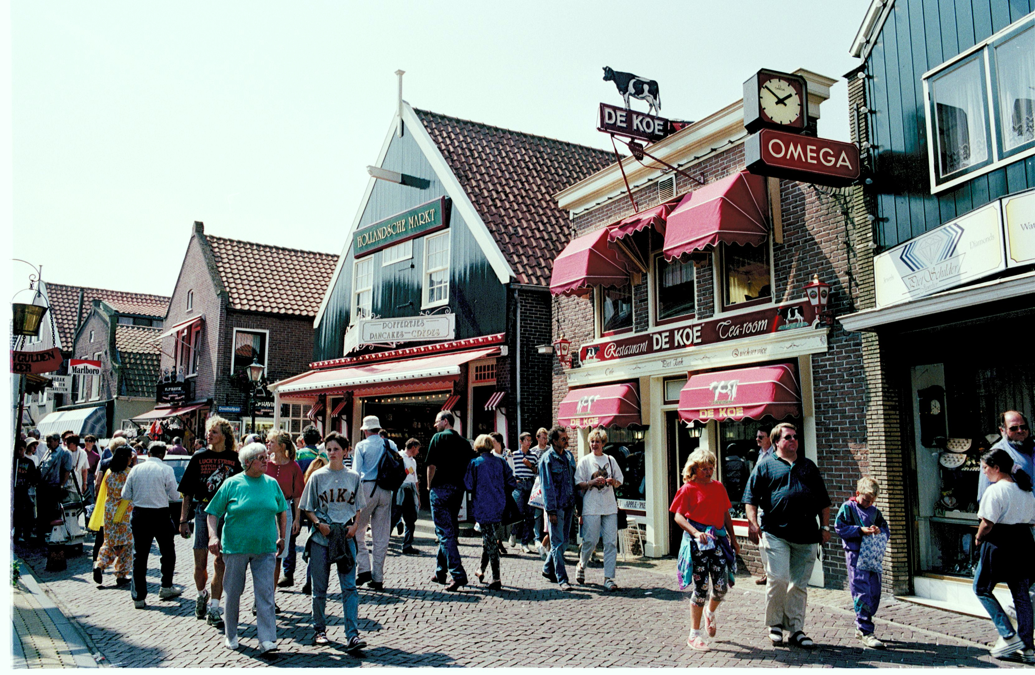 Volendam